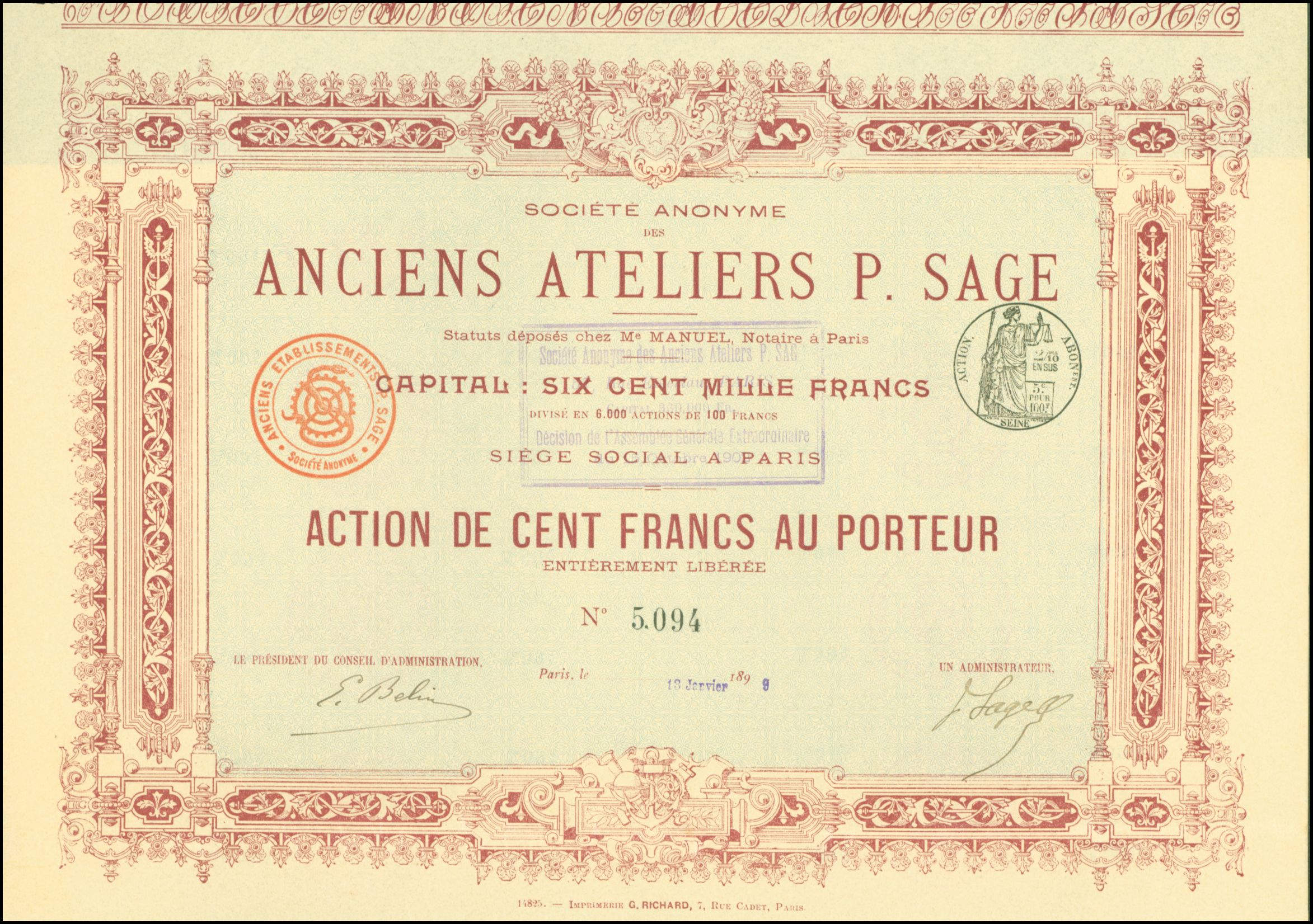 Share of the SA des Anciens Ateliers P. Sage, issued 18. January 1899